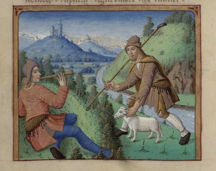 Tityrus meets Meliboeus Ms 498 f.3v